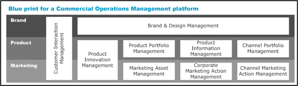 Blue print for a Commercial Operations Management solution